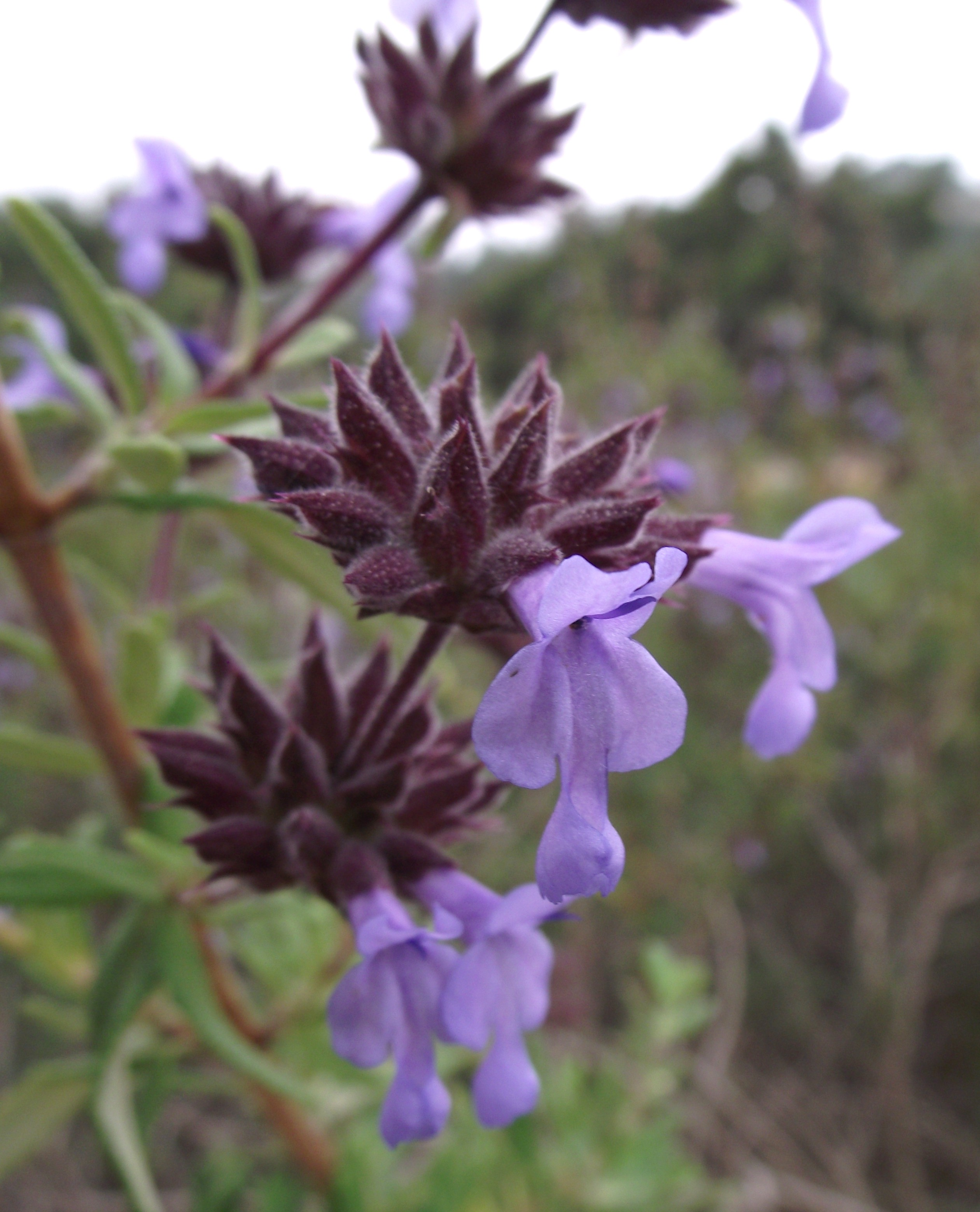 Salvia brandegeei at Santa Barbara Botanic Garden, Santa Barbara, California, USA. Identified by sign.